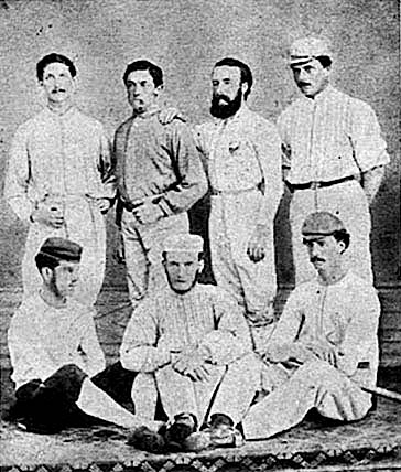 Team of Buenos Aires Cricket Club. Seated, fltr: Thomas Barlow Smith and Thomas Hogg (left and middle), pioneers of football in Argentina.